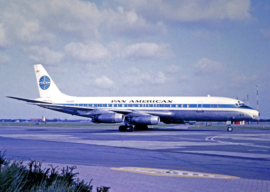 Douglas DC-8-32 N804PA of Pan American World Airways at Amsterdam Schiphol Airport in 1967